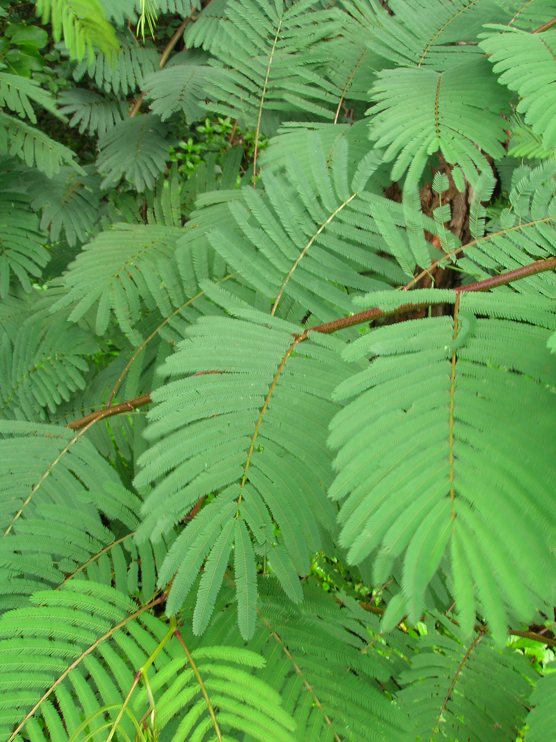 Falcataria moluccana (habit). Location: Maui, Ulumalu